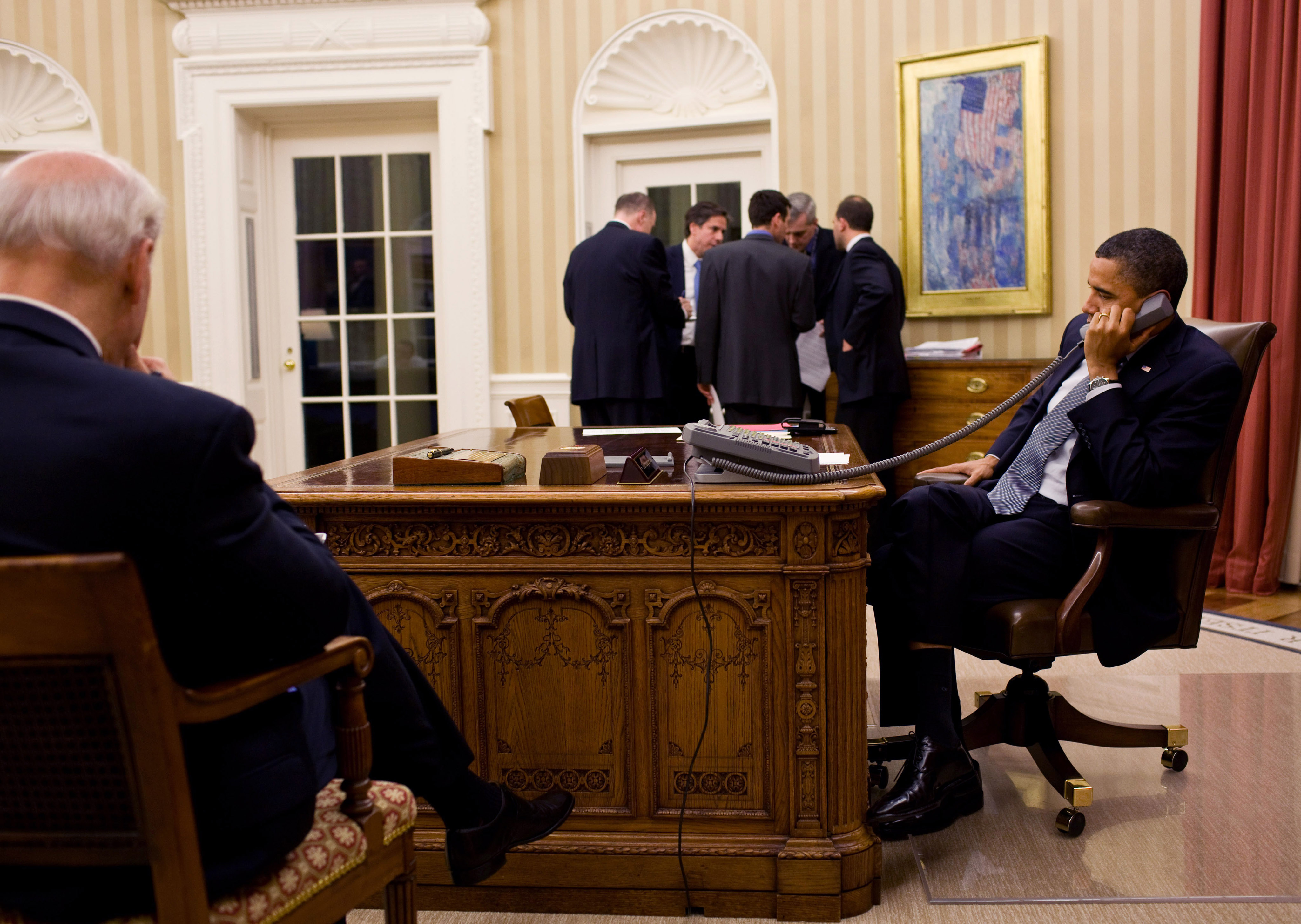 U.S. Vice-President Joe Biden (left) listens as U.S. President Barack Obama (right) speaks on the phone with Egyptian President Hosni Mubarak during the 2011 Egyptian protests, while members of the National Security team confer in the background.